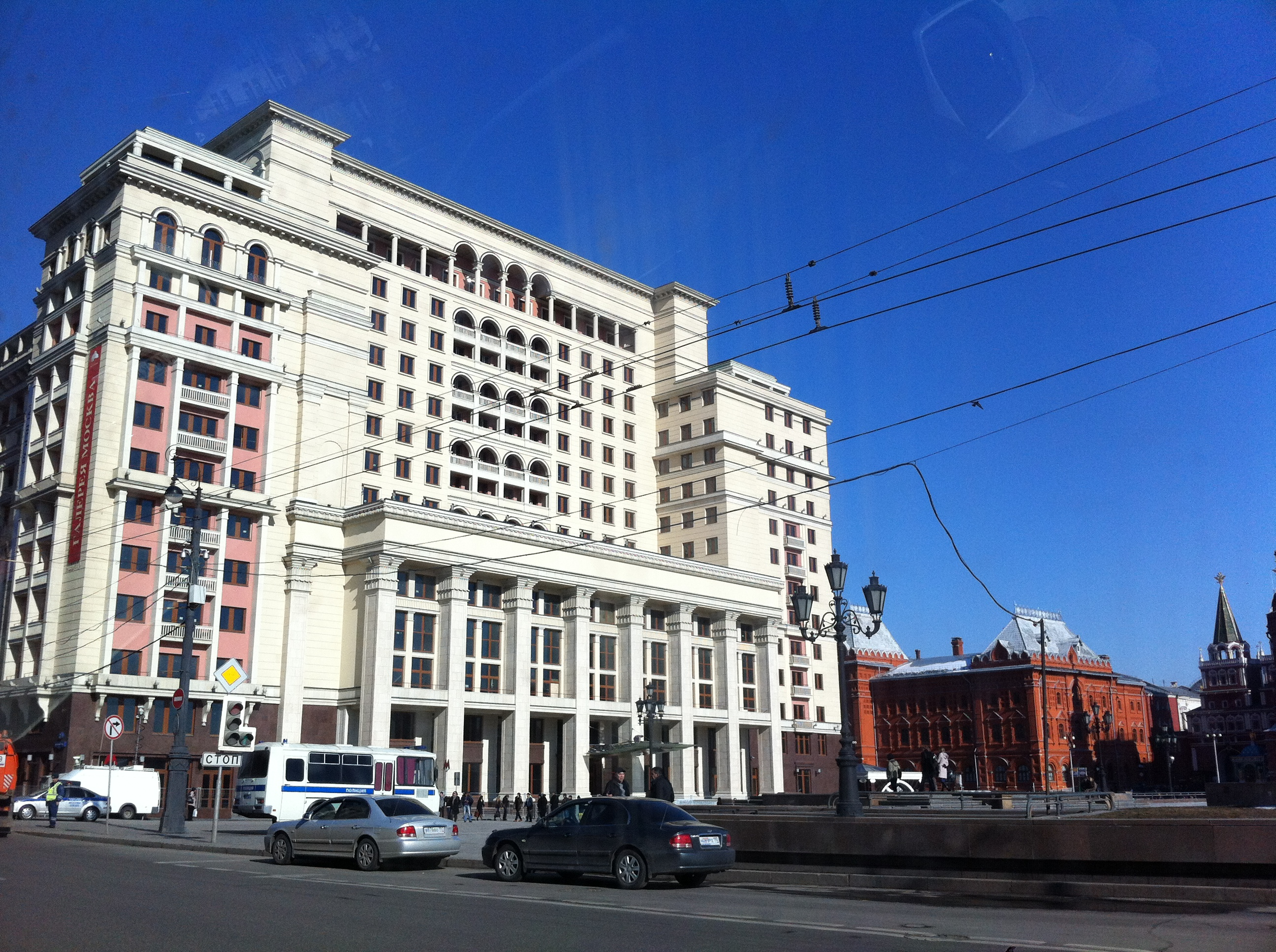 Hotel "Moscow", Moscow, Russia